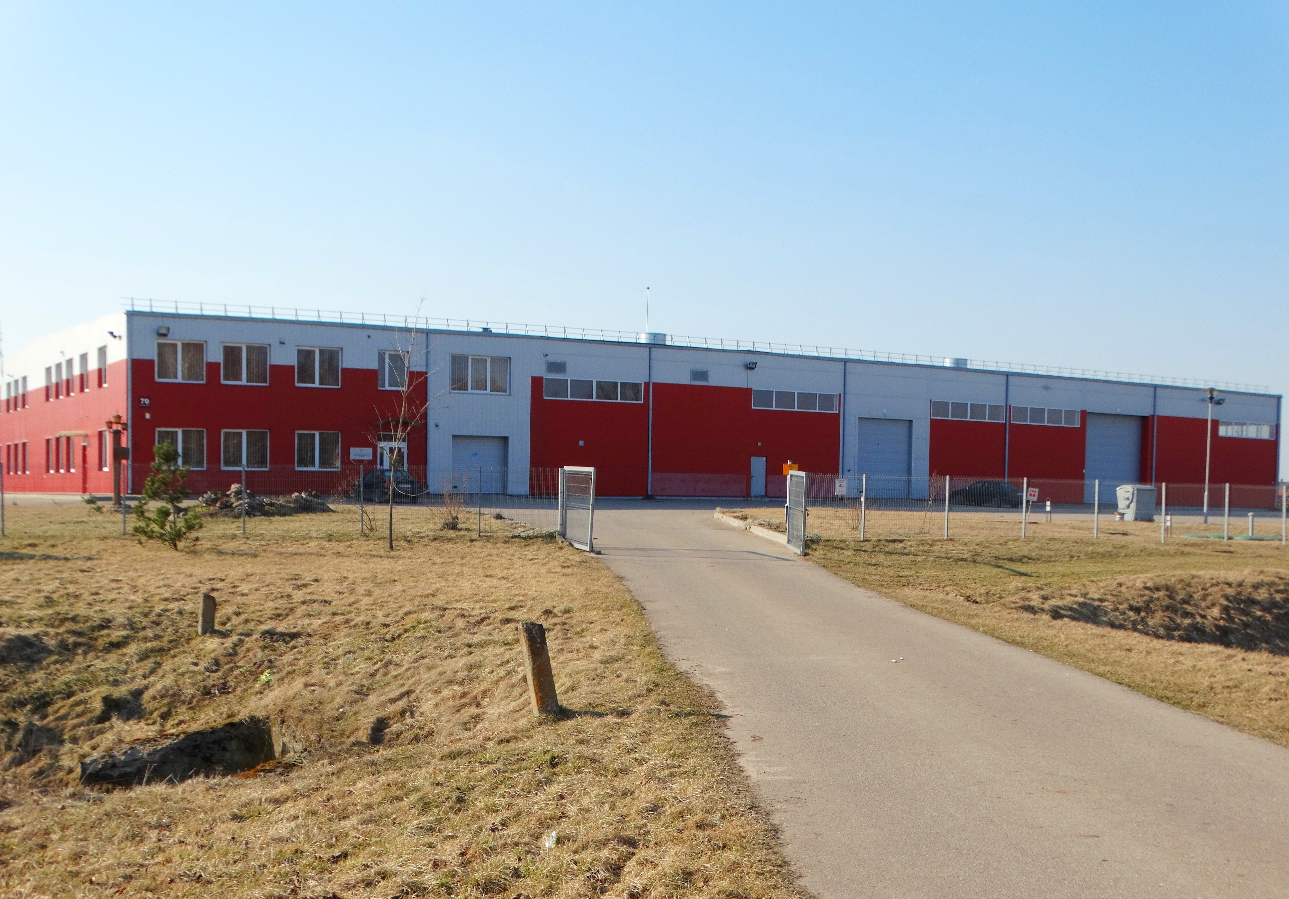 Training centre, Gruzdžiai, Šiauliai district, Lithuania